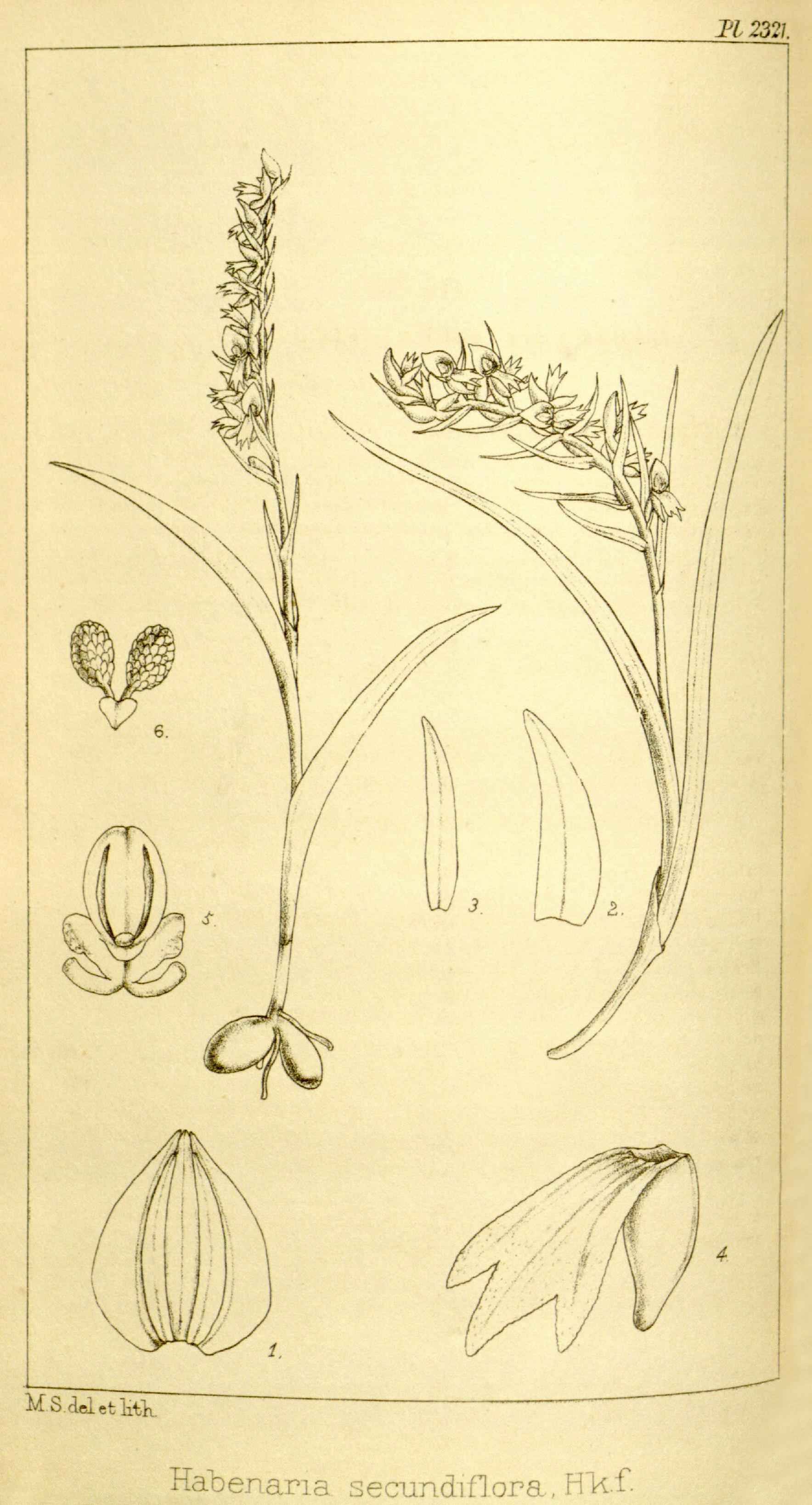 Illustration of Neottianthe secundiflora (as syn. Habenaria secundiflora)